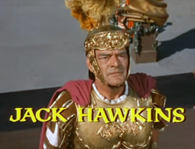 Cropped screenshot of Jack Hawkins from the trailer for the film Ben Hur